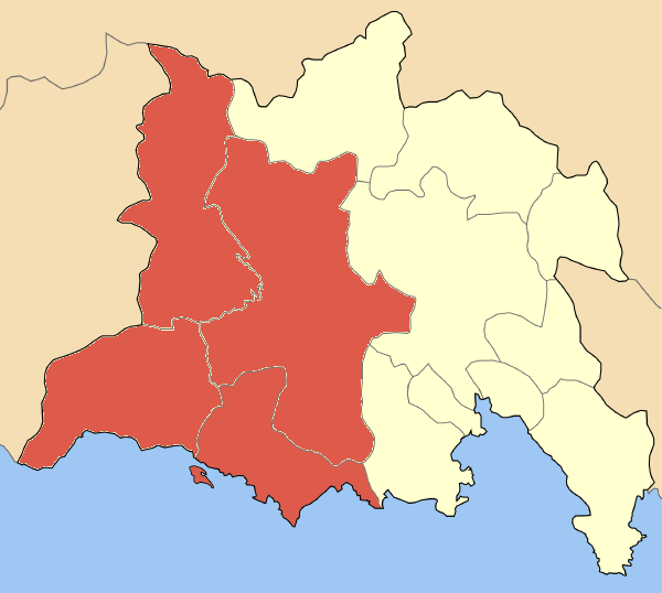 Map of Dorida municipality, Greece